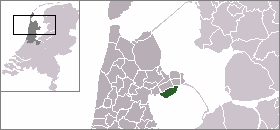 Location of Dutch former municipality Venhuizen in 2005. Made by me (Mtcv), PD.